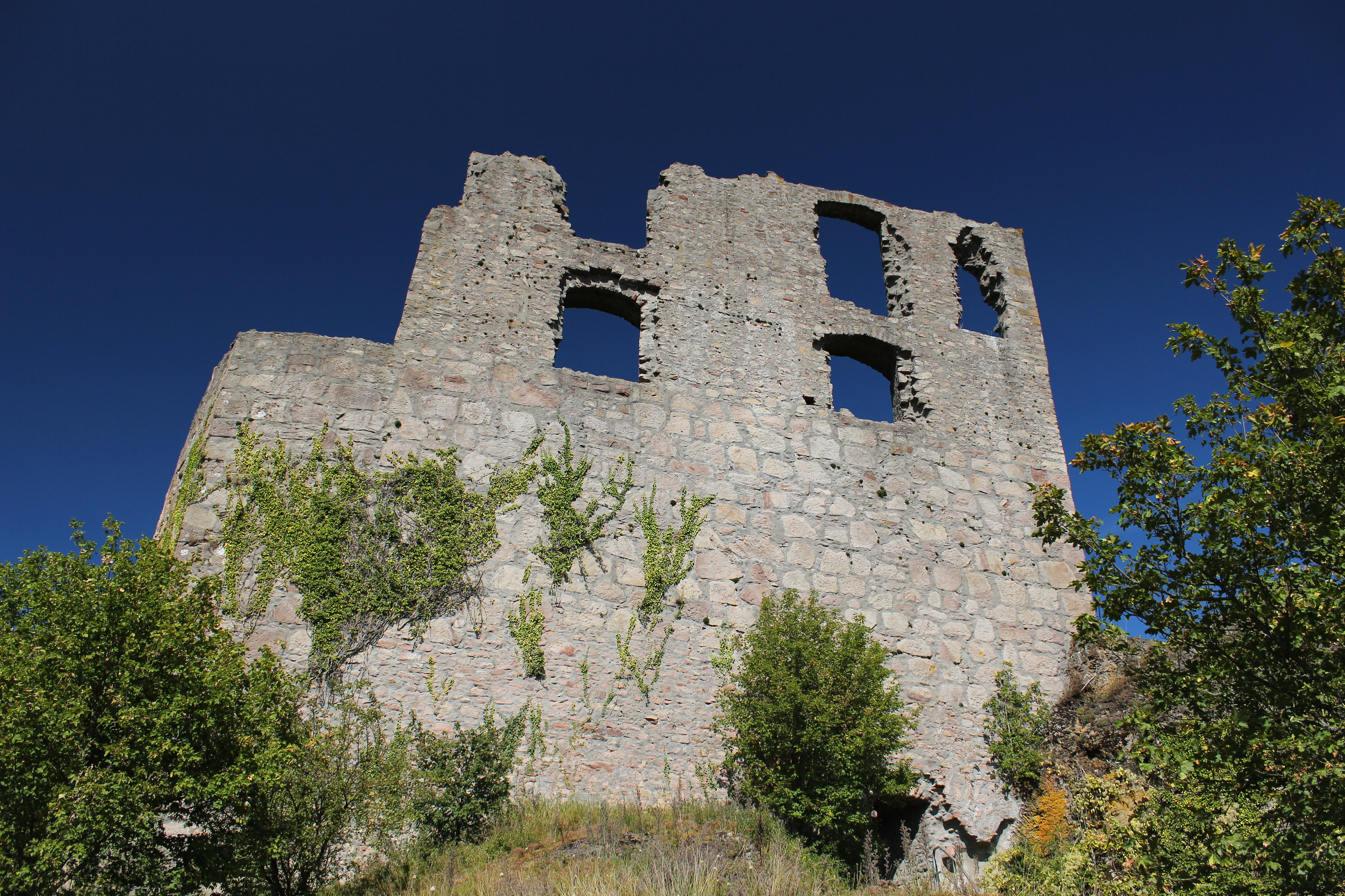 western wall of mainbuilding of Falkenstein Castle (Palatinate, Germany)